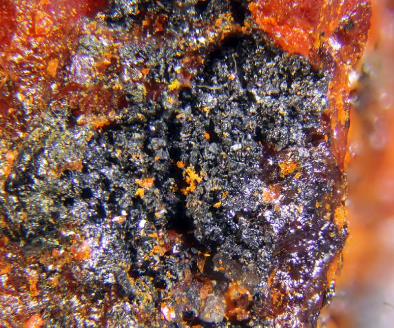 Black crystals of the extremely rare thallium mineral jankovicite in a matrix of realgar from a new find in Shimen, China (Jiepaiyu, Shimen County, Hunan Province, China), a locality that was only previously known for orpiment and realgar crystals.